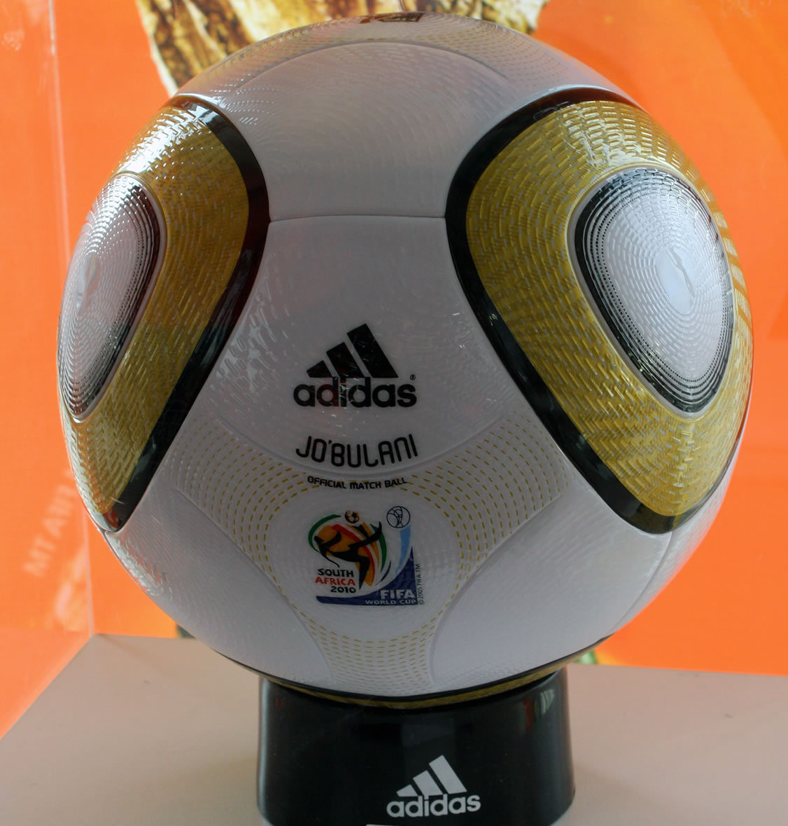 Adidas Jabulani is the Official Match Ball for the 2010 FIFA World Cup South Africa.